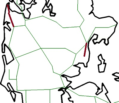 Map of railways in Middle Jutland in Denmark with the private railway compagny Midtjyske Jernbaner in brown.